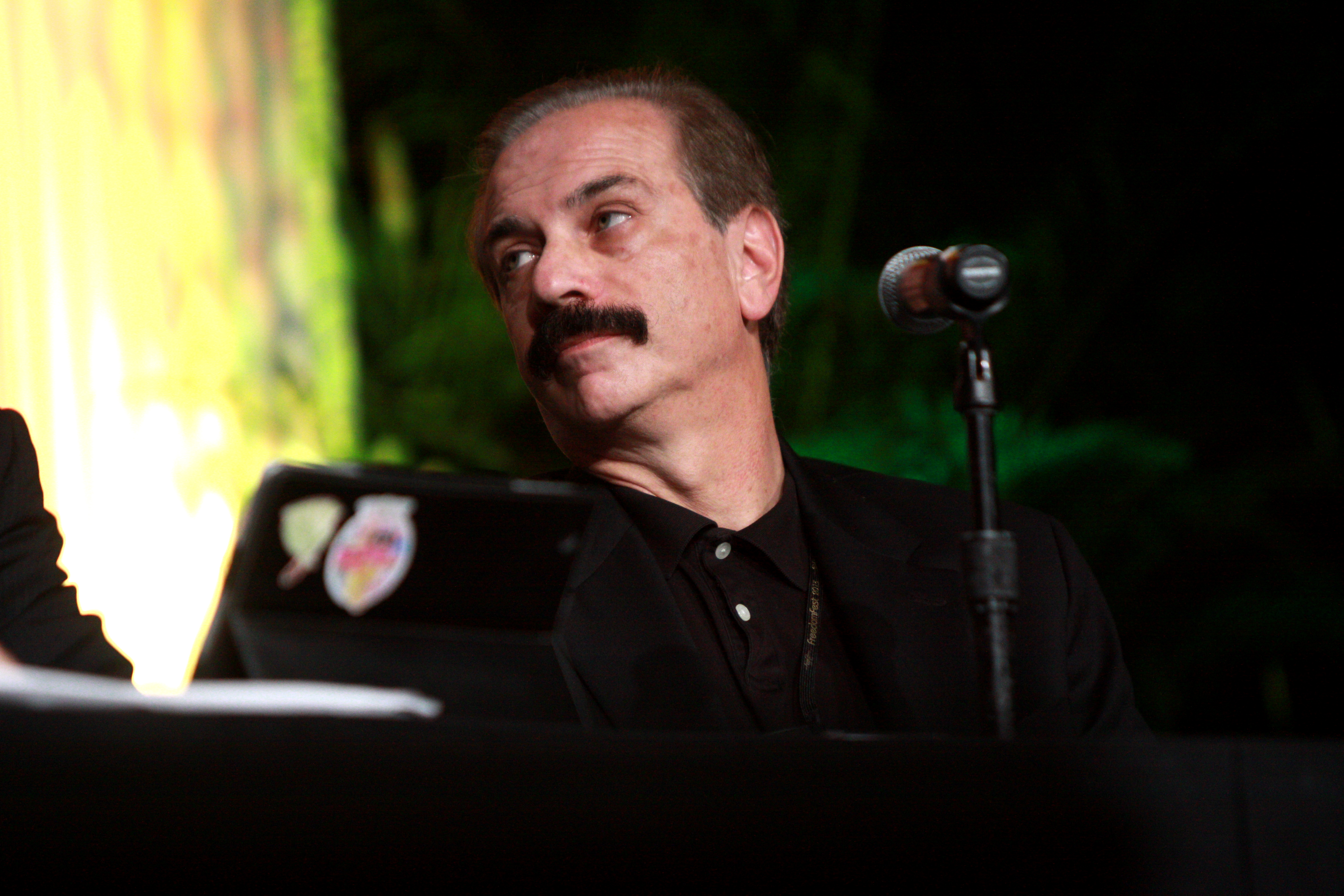 Joseph Farah speaking at the 2013 FreedomFest in Las Vegas, Nevada.